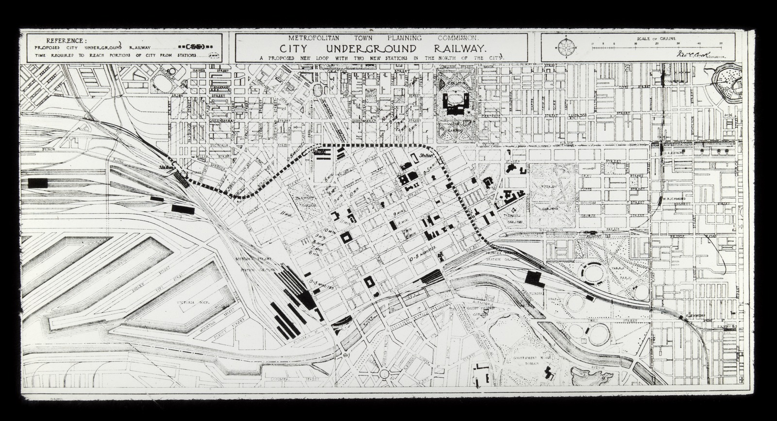 Map by the Metropolitan Town Planning Commission of the proposed underground railway, including two new stations to the north of the city. The map shows walking distances from each station. This plan would eventually evolve into Melbourne's City Loop.